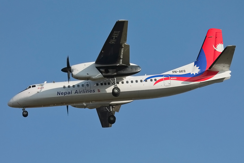 Nepal Airlines Xian MA60 in new livery on approach into Kathmandu